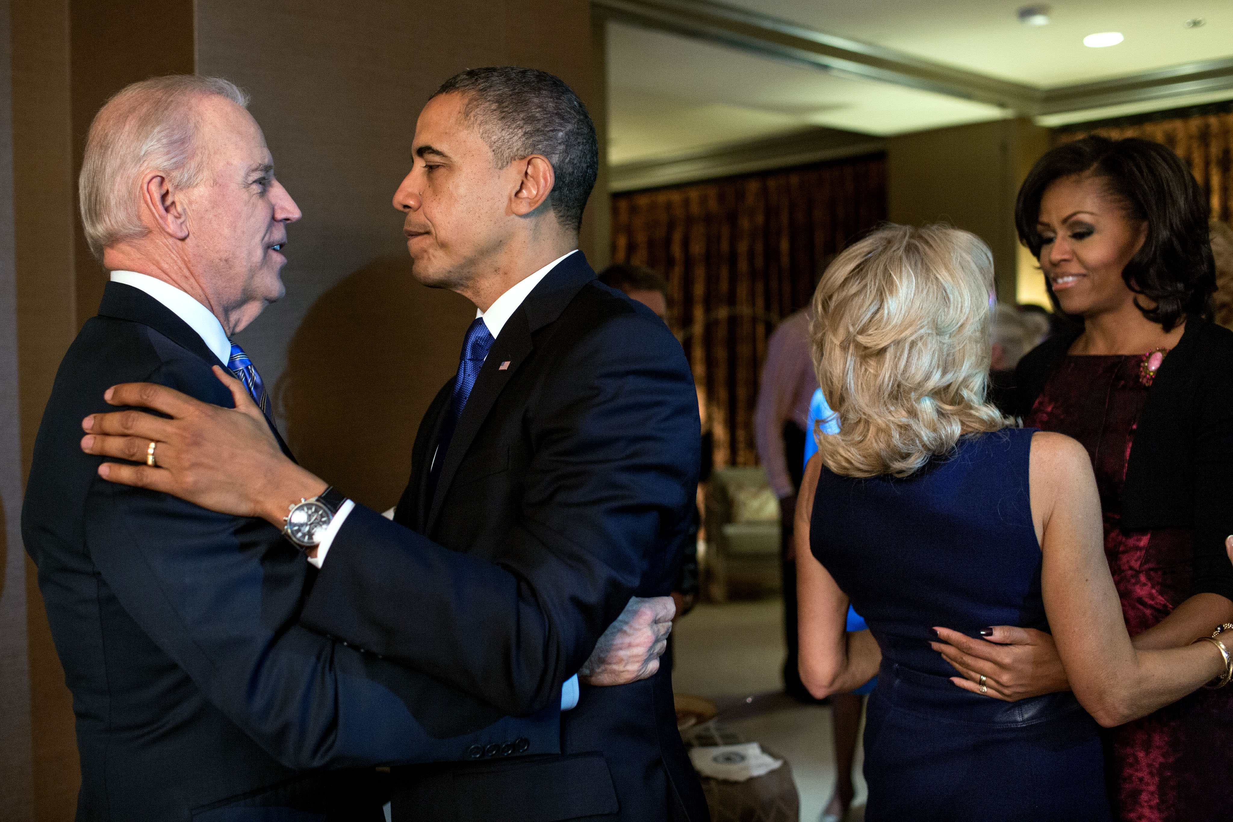 United States President Barack Obama and First Lady Michelle Obama embrace Vice President Joe Biden and Jill Biden moments after the television networks declared the 2012 presidential election in their favour, while watching election returns at the Fairmont Chicago Millennium Park in Chicago, Illinois on 6 November 2012.